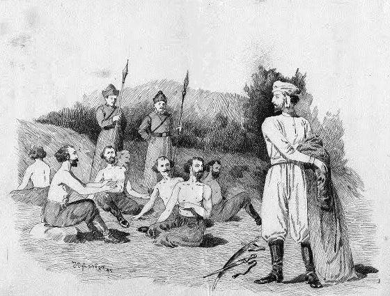 "Tsotne Dadiani", illustration from the book "The Devoted Georgians" (Tiflis, 1895)